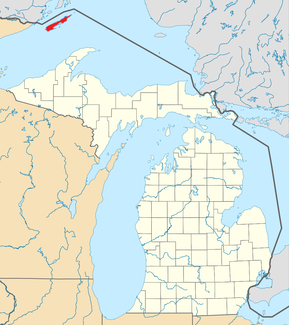 Locator map of Isle Royale National Park (red) — in Lake Superior, Upper Michigan.